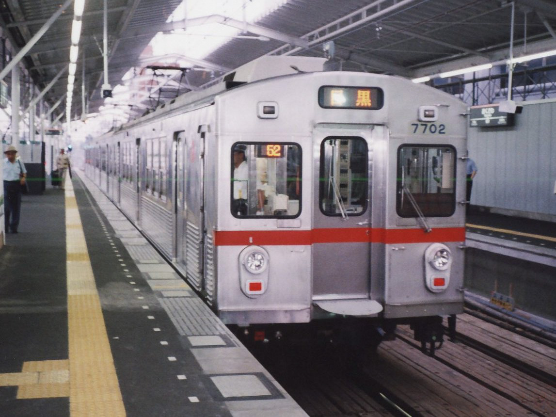 A Tokyu 7700 series EMU on the Mekama Line